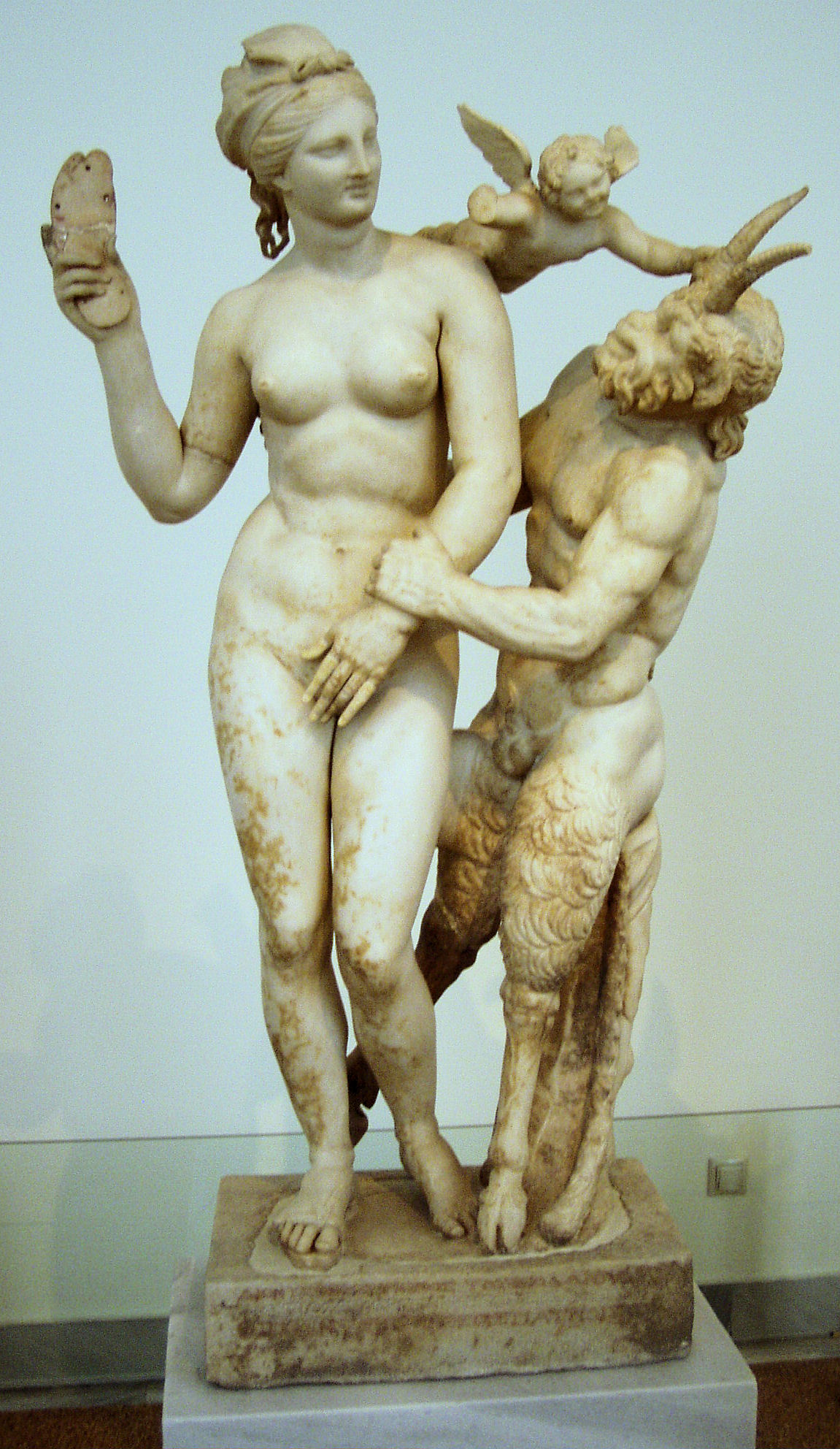 Group of Aphrodite, Pan and Eros at the NAMA, Nr 3335.